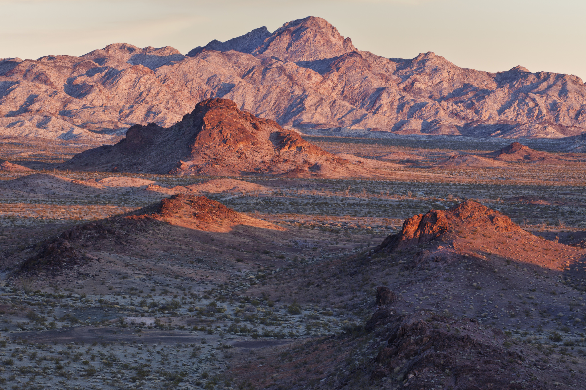 The BLM provides oversight for 222 wilderness areas with 8.7 million acres in 10 Western States. Wilderness areas are special places where the earth and its community of life are essentially undisturbed. They retain a primeval character, without permanent improvements and generally appear to have been affected primarily by the forces of nature. Enjoy photos by Bob Wick on BLM Wilderness Areas throughout the state.